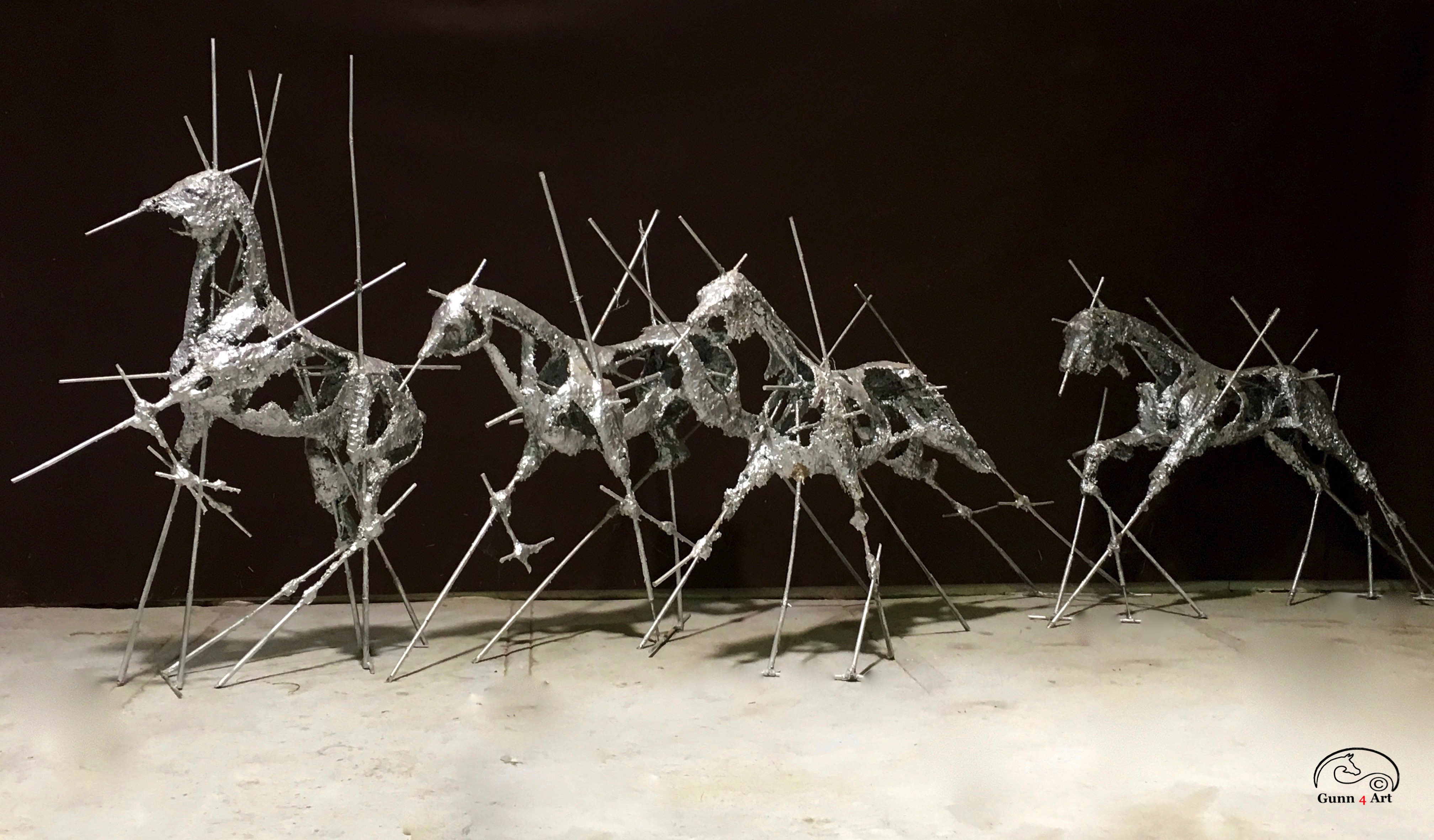 A Day at the Races. by kathinka Gunn GUNN4ART mixed media 135x350x120cm